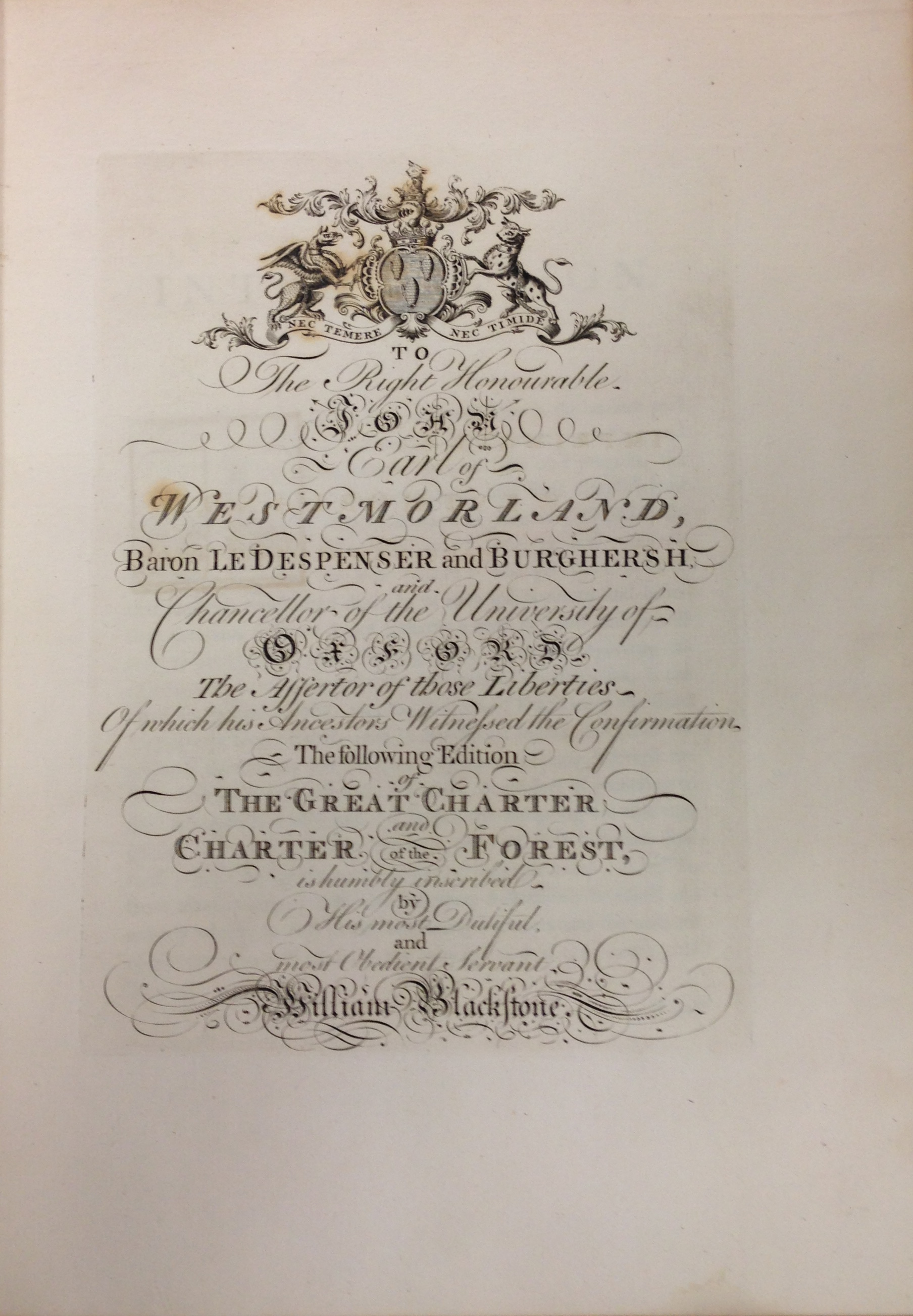 Dedication page of William Blackstone (1759) The Great Charter and Charter of the Forest, with other Authentic Instruments: To which is Prefixed an Introductory Discourse, Containing the History of the Charters. By William Blackstone, Esq; Barrister at Law, Vinerian Professor of the Laws of England, and D.C.L., Oxford: Clarendon Press OCLC: 4547269. The text reads: "TO / The Right Honourable / JOHN / Earl of / WESTMORLAND, / Baron LE DESPENSER and BURGHERSH / and / Chancellor of the University of / OXFORD / The Aſſertor of those Liberties / Of which his Ancestors Witneſsed the Confirmation. / The following Edition / of / THE GREAT CHARTER / and / CHARTER of the FOREST / is humbly inscribed / by / His most Dutiful / and / most Obedient Servant / William Blackſtone."